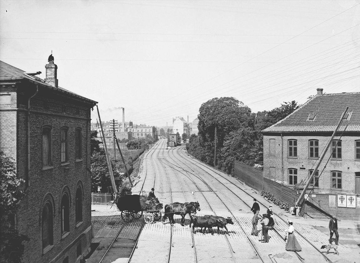 Railway crossing at Vodroffsvej seen from the bridge across the railway in Copenhagen, Denmark